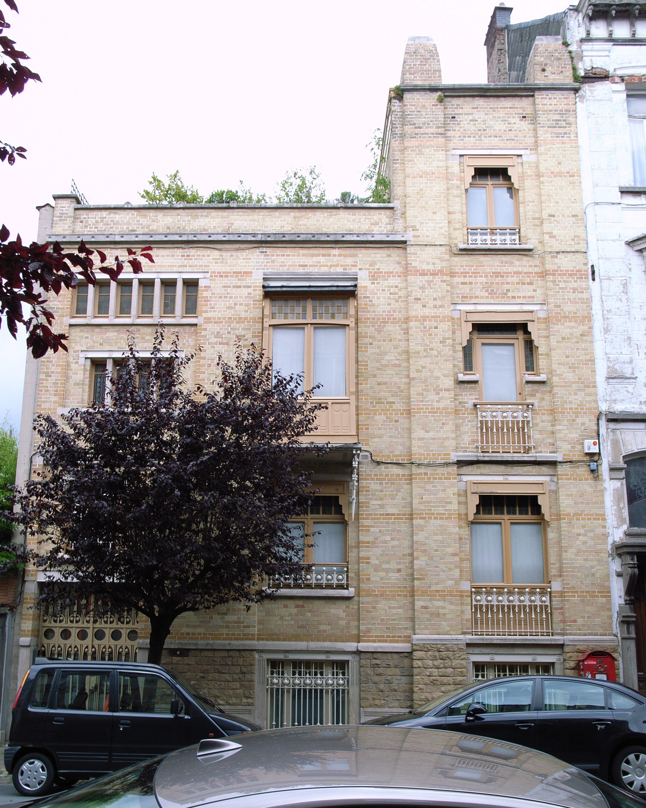 4 rue de la Réforme Brussels. House and studio of the painter Géo Bernier (1862-1918); designed by Alban Chambon and executed by his son Fernand Chambon